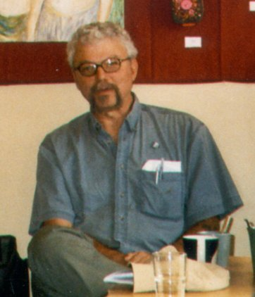 Greg Stafford, American role-playing game designer in Helsinki, Finland.